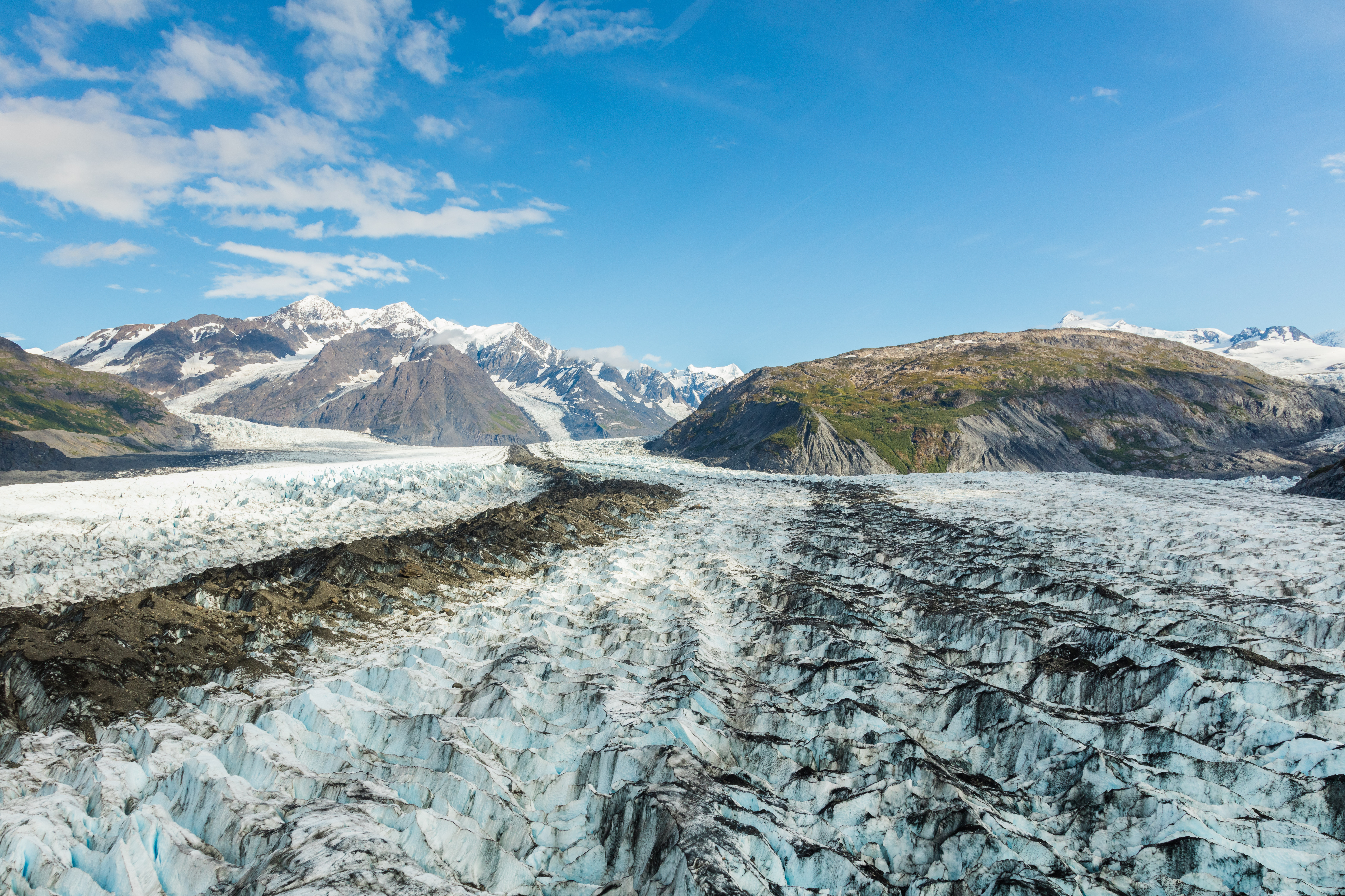 Chugach State Park, Alaska, United States